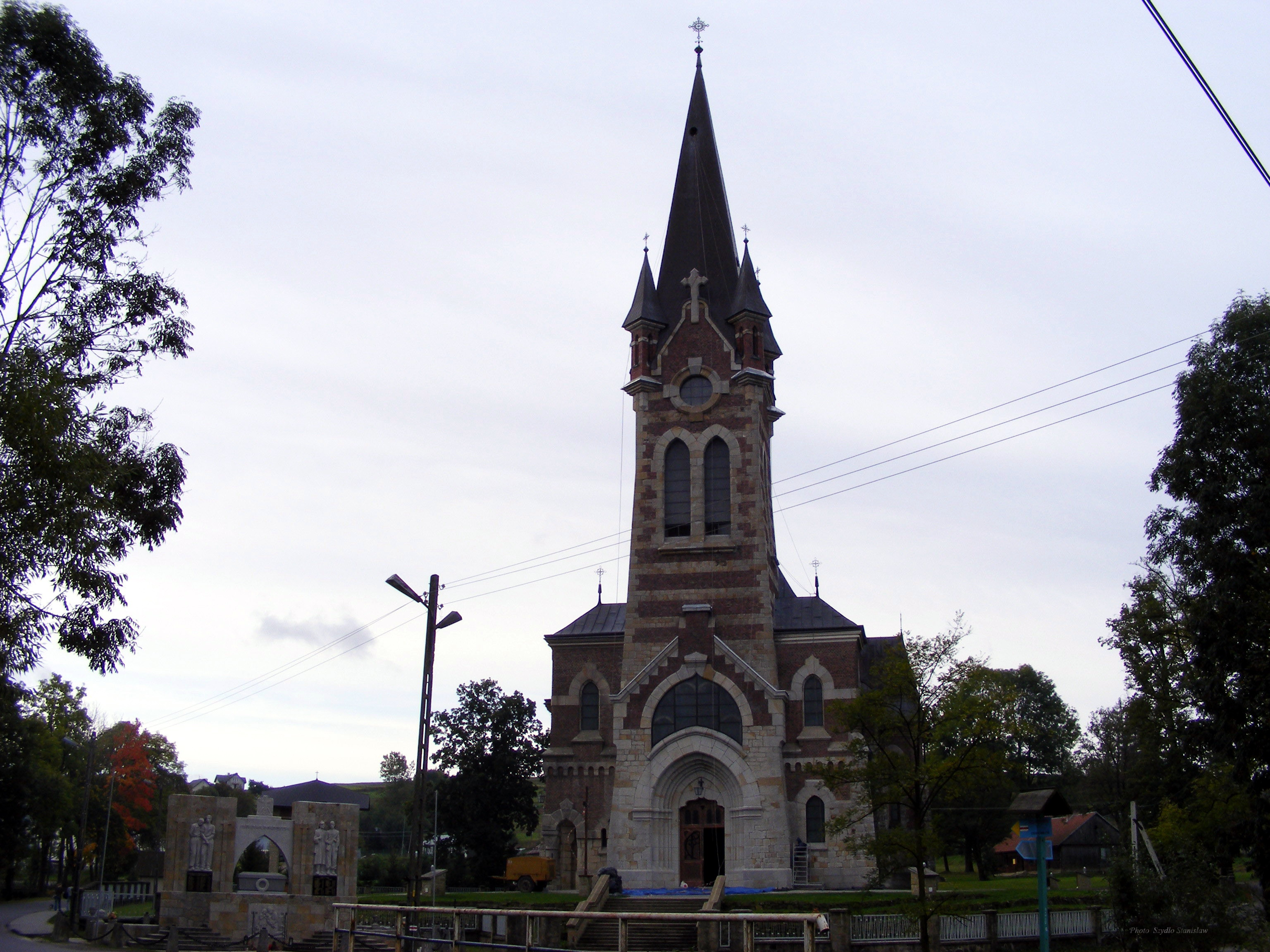 Church in Lubatowa